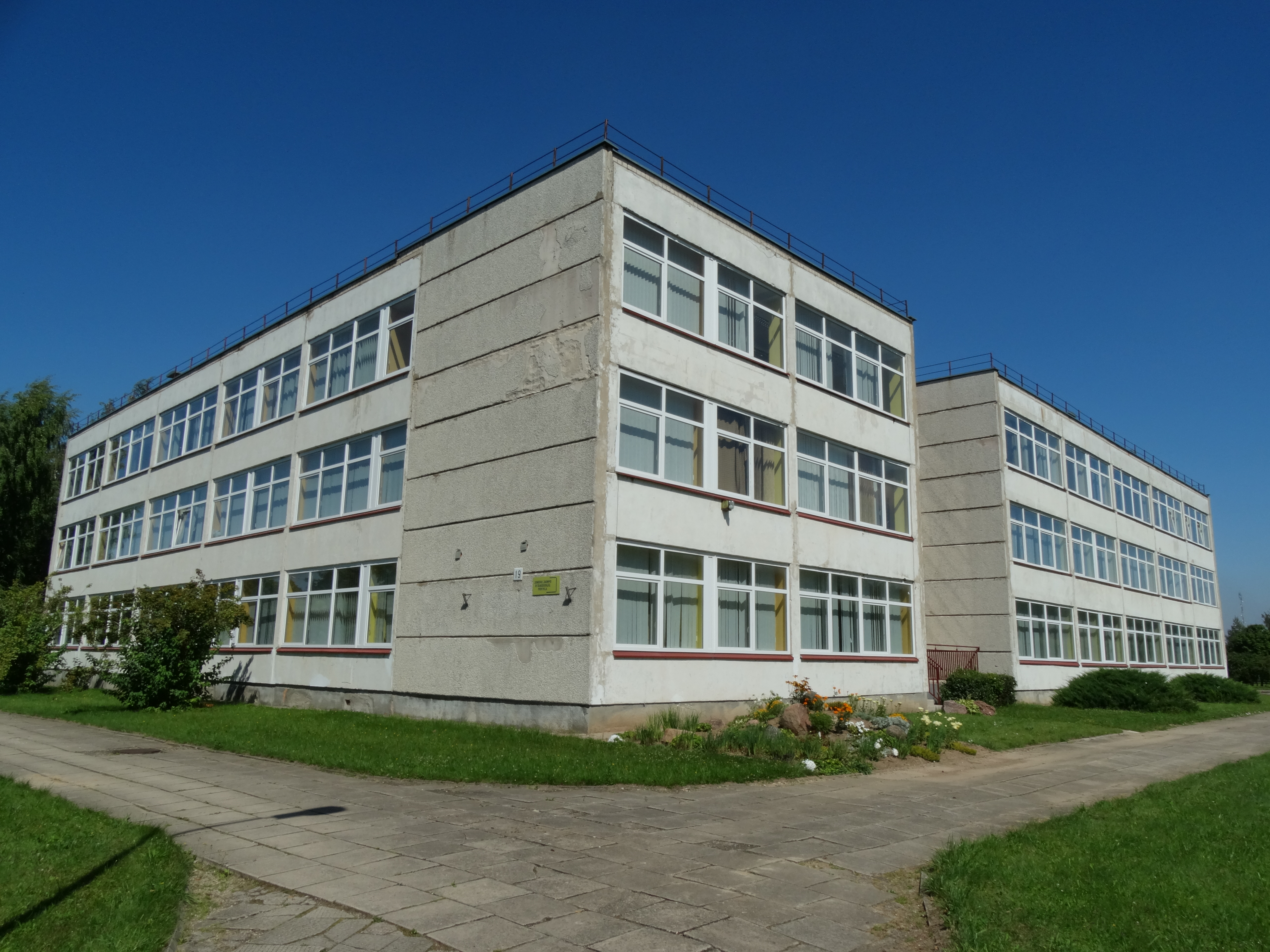 Matas Slančiauskas progymnasium, youth and adult school, Joniškis, Lithuania